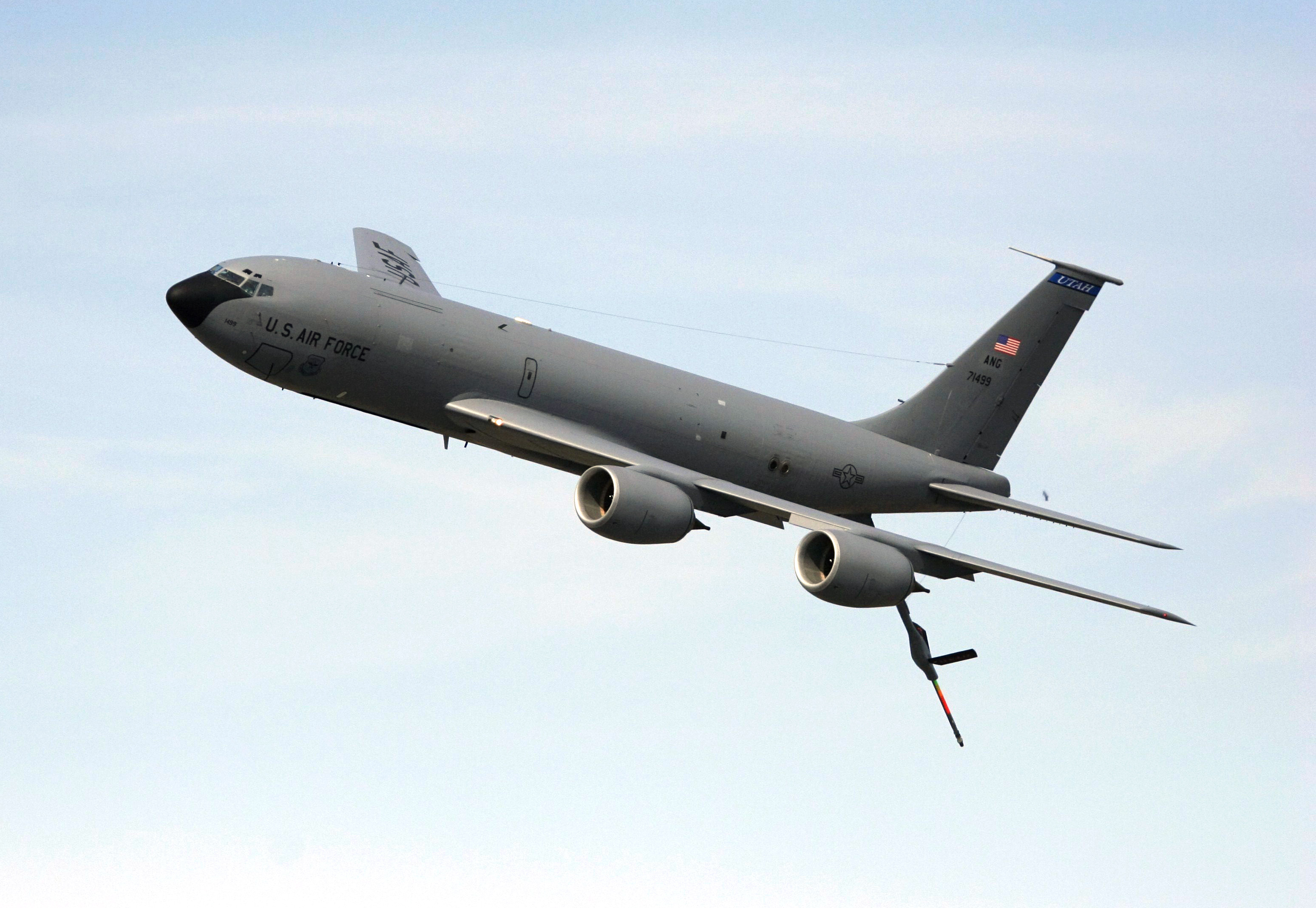 A U.S. Air Force Boeing KC-135R Stratotanker (s/n 57-1499) from the 191st Air Refueling Squadron, 151st Air Refueling Wing, Utah Air National Guard, making a fly by at Governor's Day, Camp W. G. Williams, Utah (USA), on 9 September 2006.